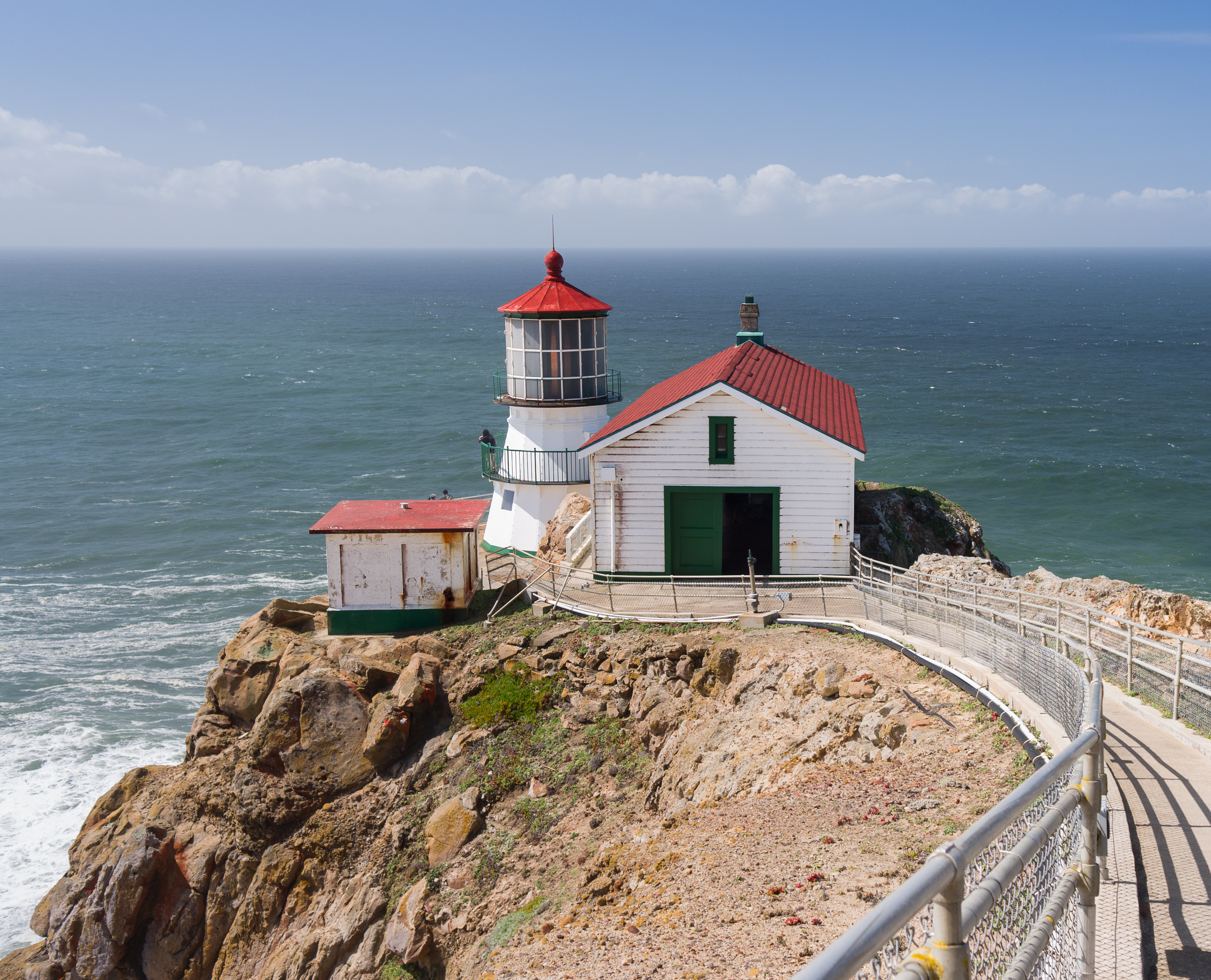 Point Reyes Lighthouse, Marin County, California.